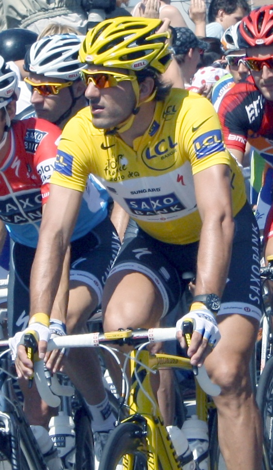 Fabian Cancellara at the start of the first stage of the 2010 Tour de France in Rotterdam